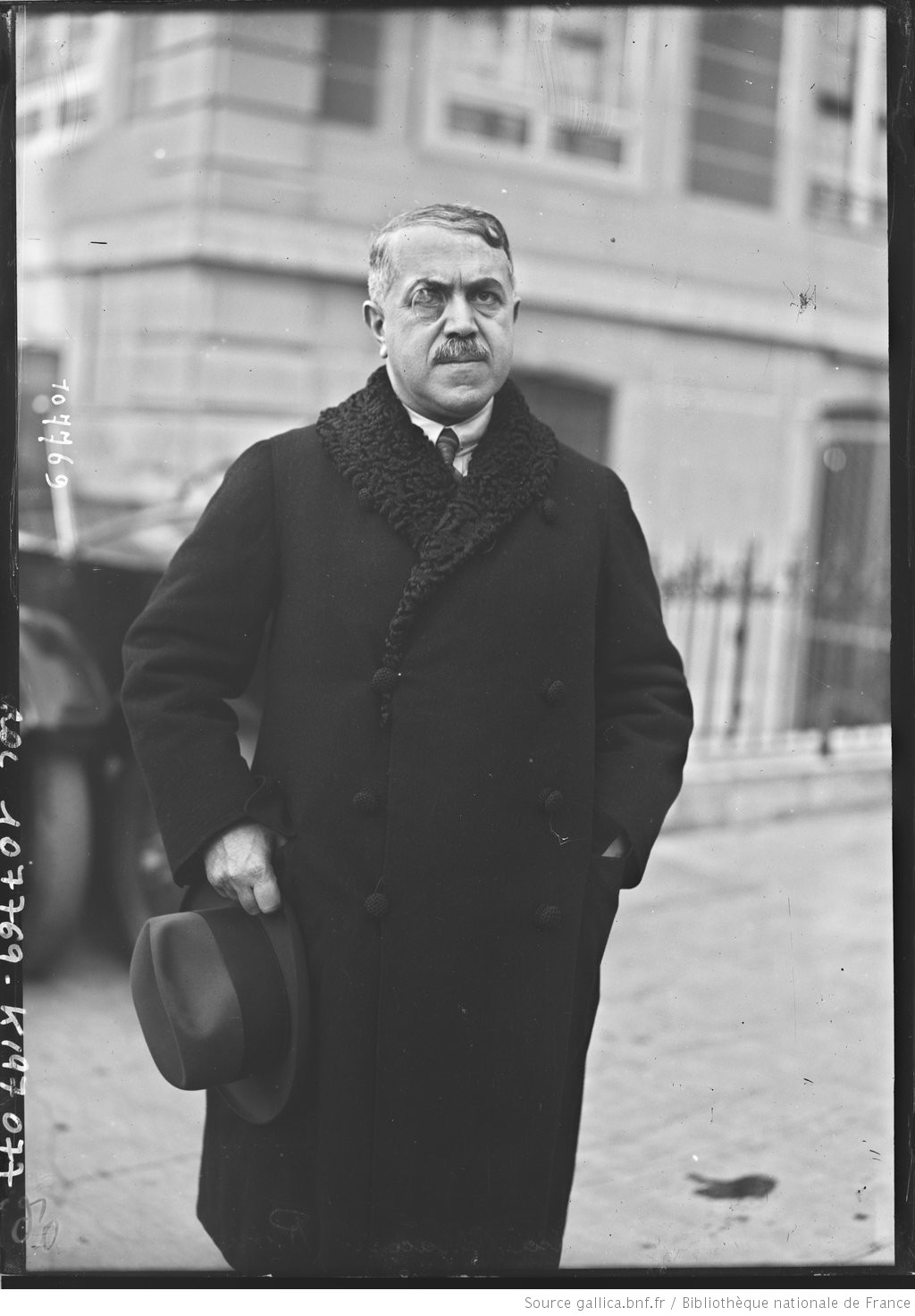 The Greek envoy Loukas Kanakaris Roufos at the Leage of Nations in Geneva